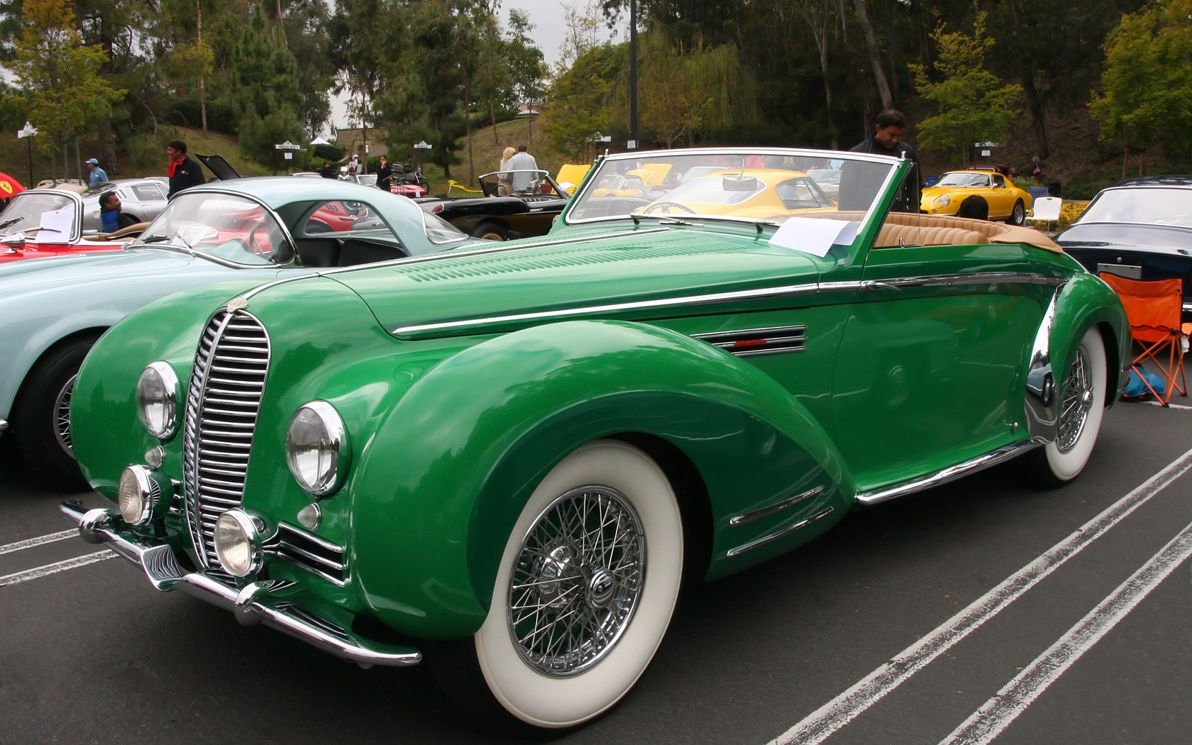 1947 Delahaye 135 MS, Greystone Mansion Inaugural Concours d'Elegance, April 11, 2010